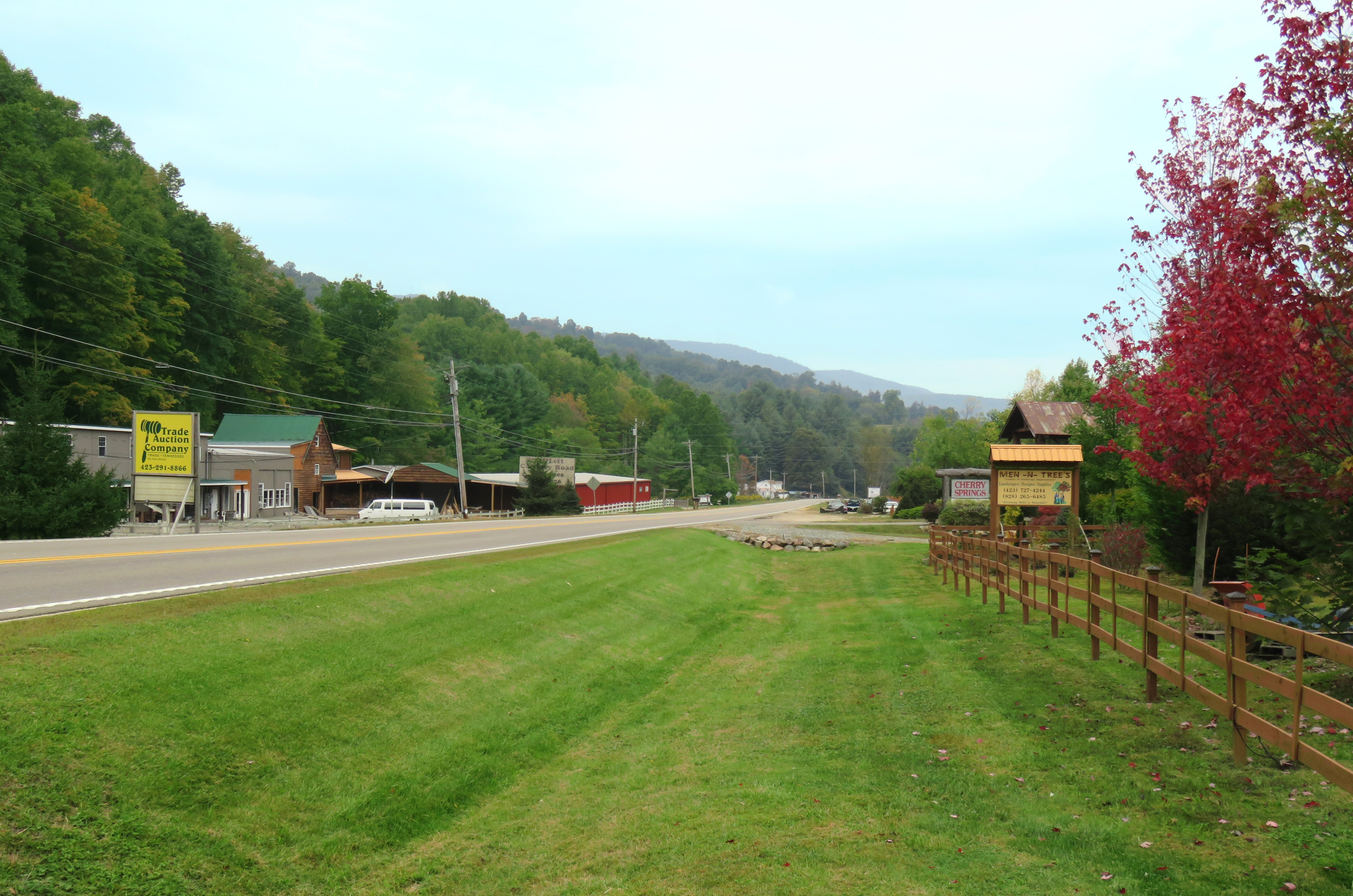 Businesses along U.S. Route 421 in the Trade community of Johnson County, Tennessee, United States.